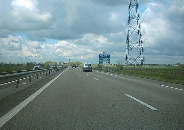 Author: Gregory Deryckère From English Wikipedia